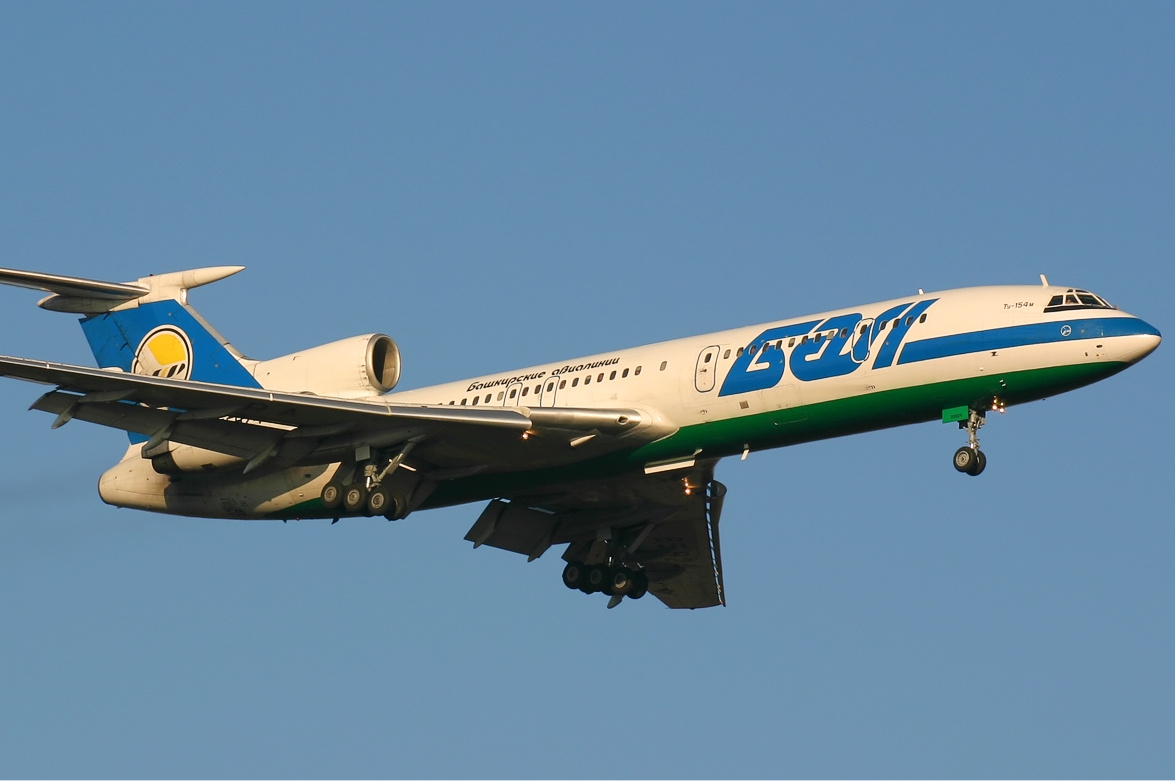 BAL Bashkirian Airlines Tupolev Tu-154M